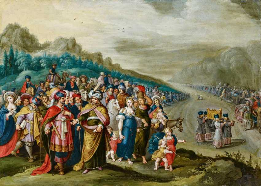 The Israelites led by Joshua passing over the Jordan River into the Land of Israel on the 10th of Nisan while carrying the Ark of the Covenant.